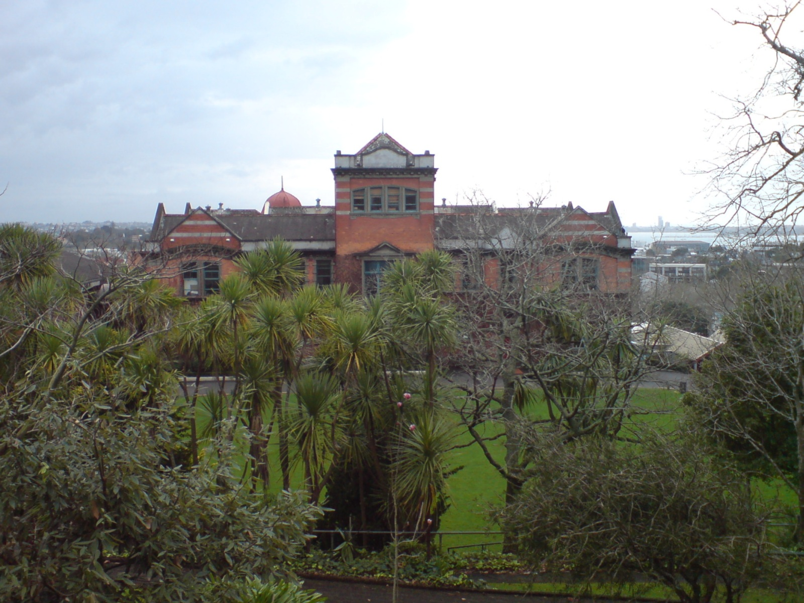 Auckland Girls' Grammar School in Freemans Bay, Auckland, New Zealand. Photographed looking north. New Zealand Historic Places Trust Register number: 544.